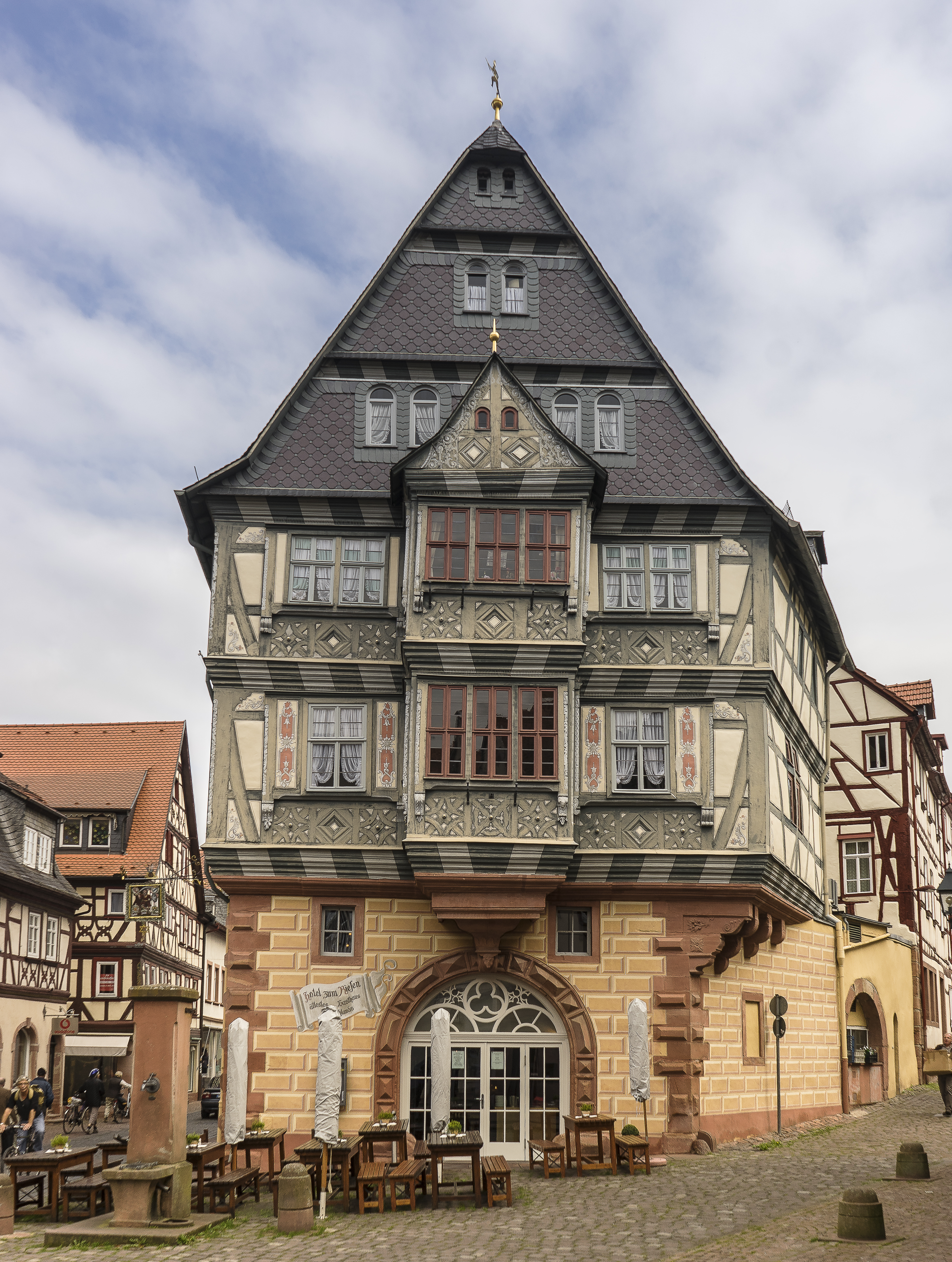 Guesthouse "Riesen" the owner call it the oldest guesthouse of Germany